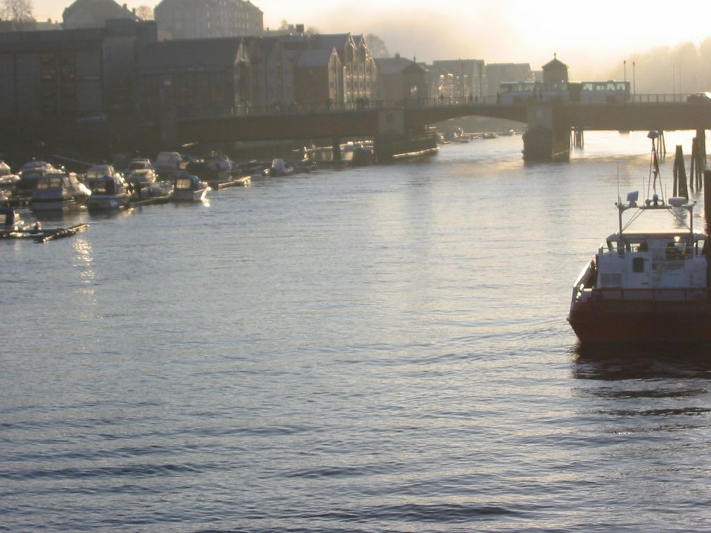 Nidelva in Trondheim, Norway. November 8 2003. Picture taken by Orcaborealis. No rights reserved.